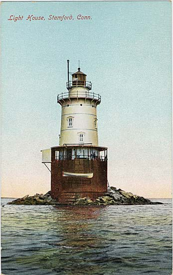 Postcard: Stamford Harbor Ledge Light, postcard dated 1912 "Postcard era: Divided Back Era, 1907 - 1914" Postcard date: June 23, 1912 (although the back of the postcard, as seen on the Web page link below, has a message, there is no postmark or stamp or address; probably not sent through the mail)